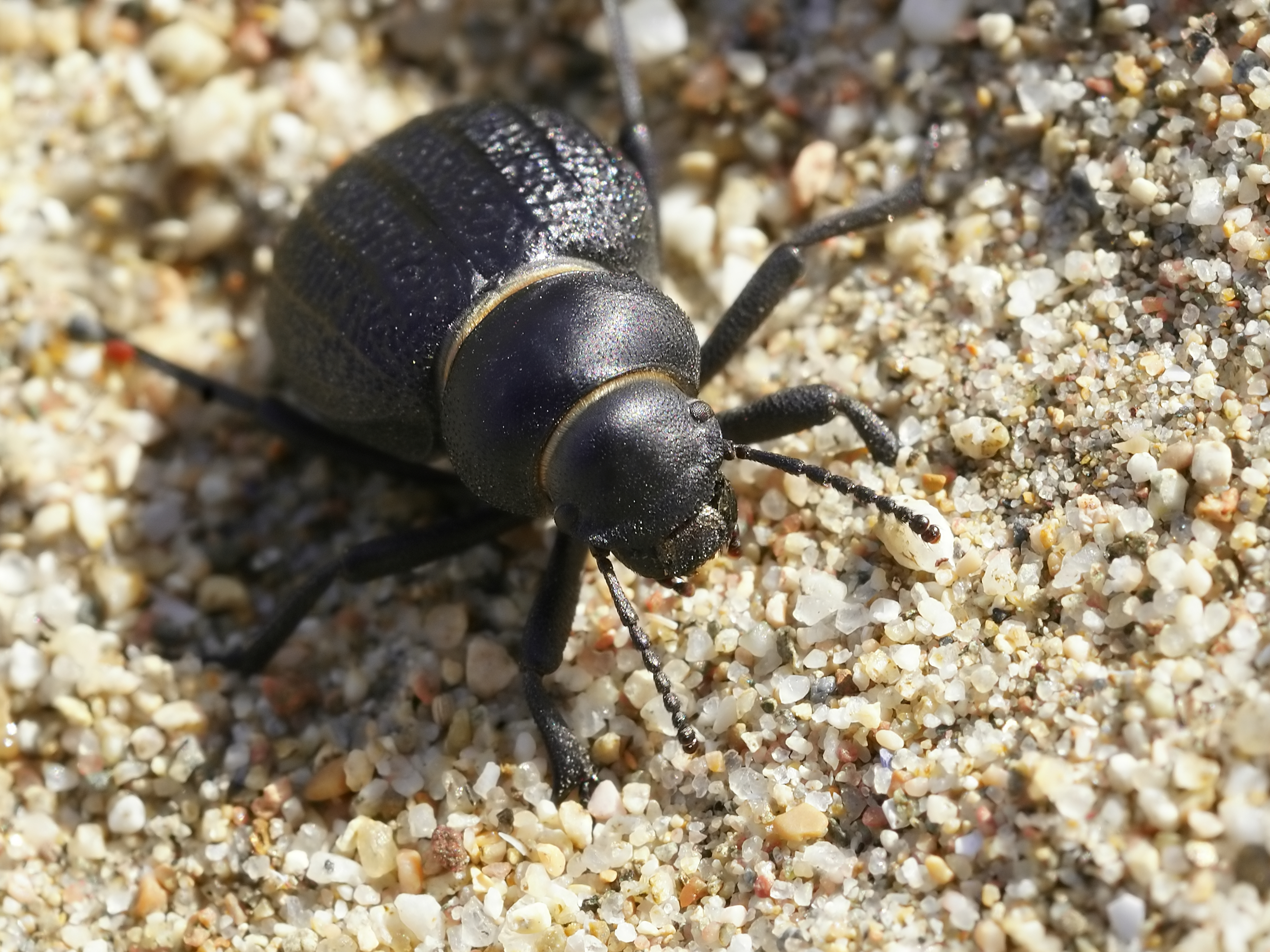 Tenebrionid beetle near Ampolla, Baix Ebre (Catalonia), Spain With thanks to Dr. Schawaller for the identification suggestion.